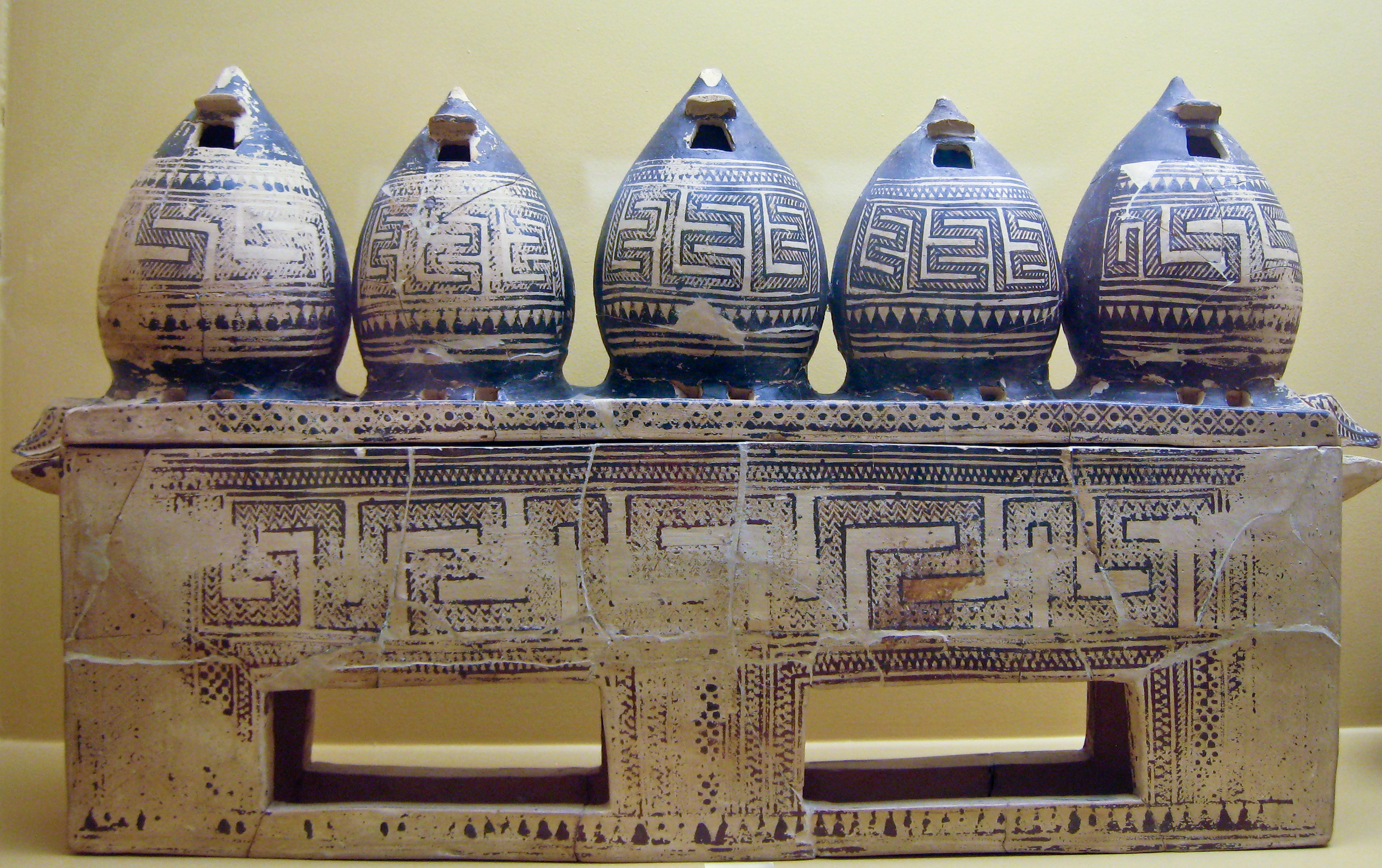 Chest and Lid with Model Granaries. Classes were determined by number of granaries, and five was from the highest class. From early geometric cremation burial of a pregnant wealthy woman, 850 BC.